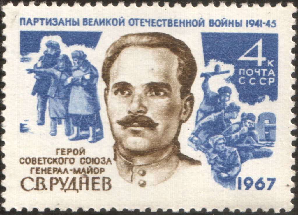 Soviet postage stamp depicting Hero of the Soviet Union Semyon Rudniev